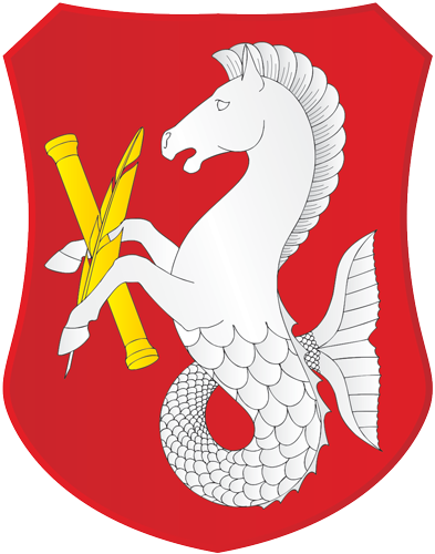 Lesser Coat of Arms of the Macedonian Heraldry Society